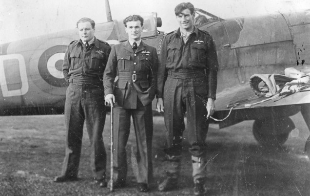 BINBROOK, ENGLAND. PILOTS WHO HELPED TO PUT NO. 452 SQUADRON RAAF ON THE MAP. LEFT TO RIGHT: SQUADRON LEADERS 400213 KEITH 'BLUEY' W. TRUSCOTT DFC, COMMANDED 452 SQUADRON 1942; B.E. FINUCANE DSO DFC RAF, 65 SQUADRON RAF AND 452 SQUADRON AND 402144 SQUADRON LEADER R.E. THOROLD-SMITH DFC, COMMANDED 452 SQUADRON 1942-43.